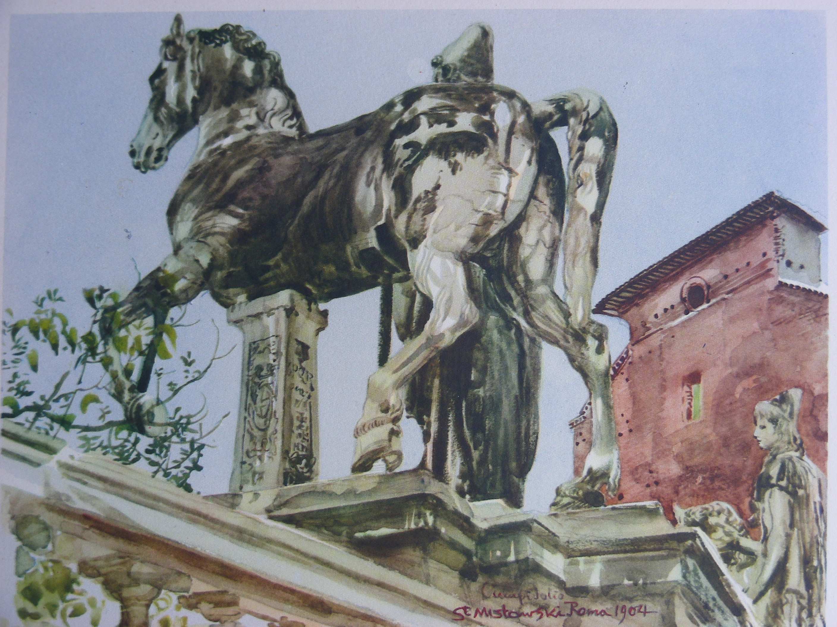 Stanisław Masłowski (1853-1926), The Horse statue in the entrance to Capitoline Hill, Rome,1904, watercolour painting, 32x43.5 cm